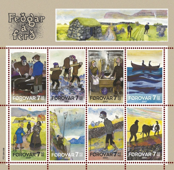 Stamps FO 591-598 of the Faroe Islands: Heðin Brú's novel Feðgar á ferð, 1940 (English The Old Man And His Sons, New York 1970)